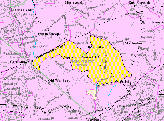 U.S. Census 2000 reference map for Brookville, New York